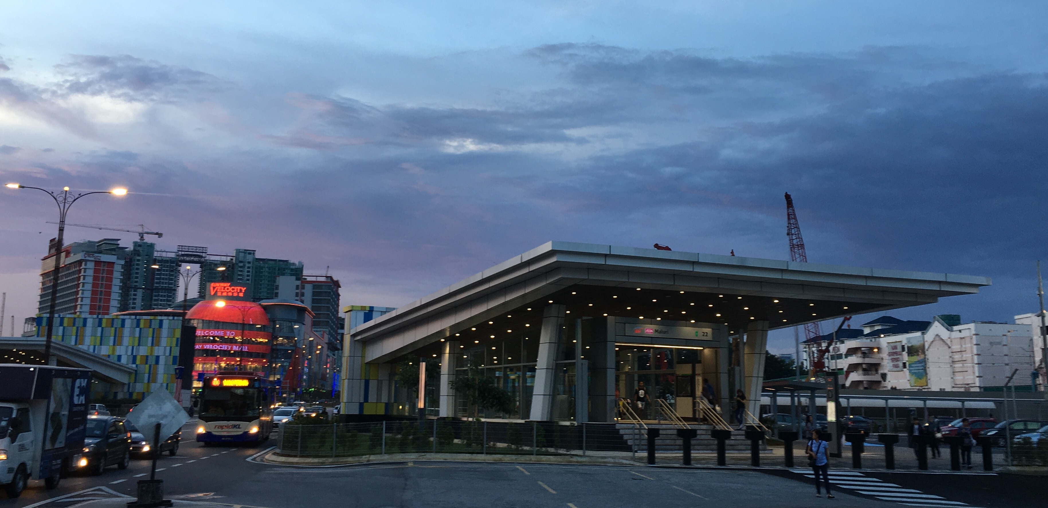 Maluri MRT Station Entrance D along Jalan Cheras.